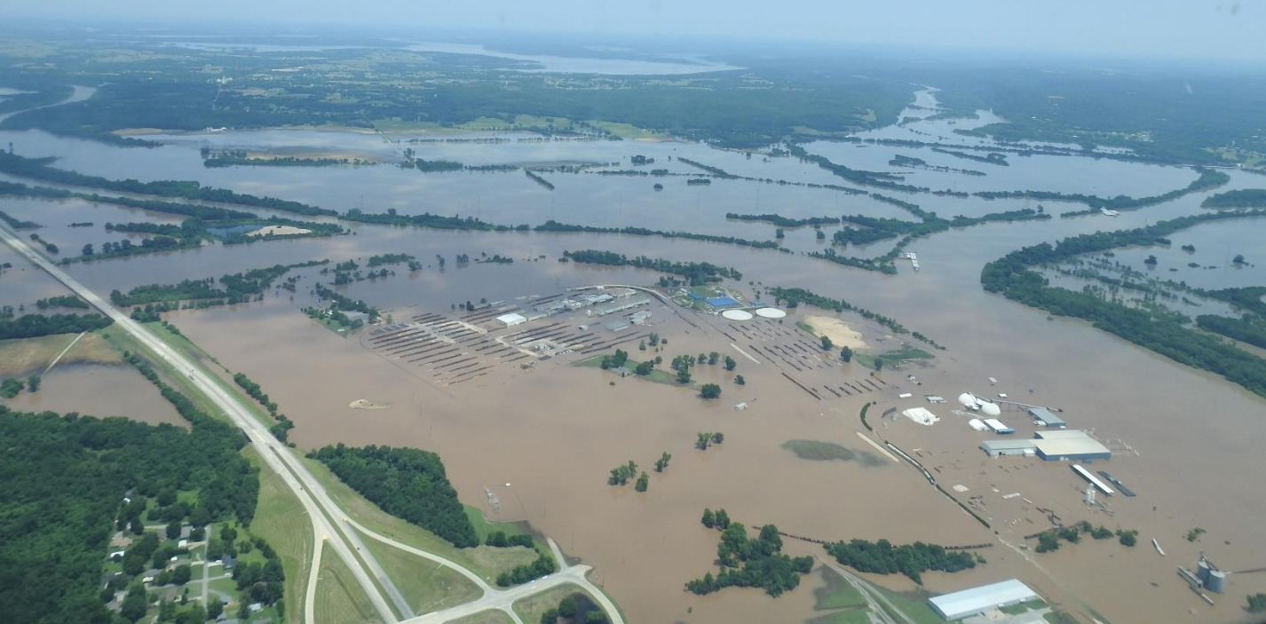 Flooding along the banks of the confluence of the Arkansas, Verdigris, and Grand-Neosho rivers in Muskogee, Oklahoma, on May 31, 2019.